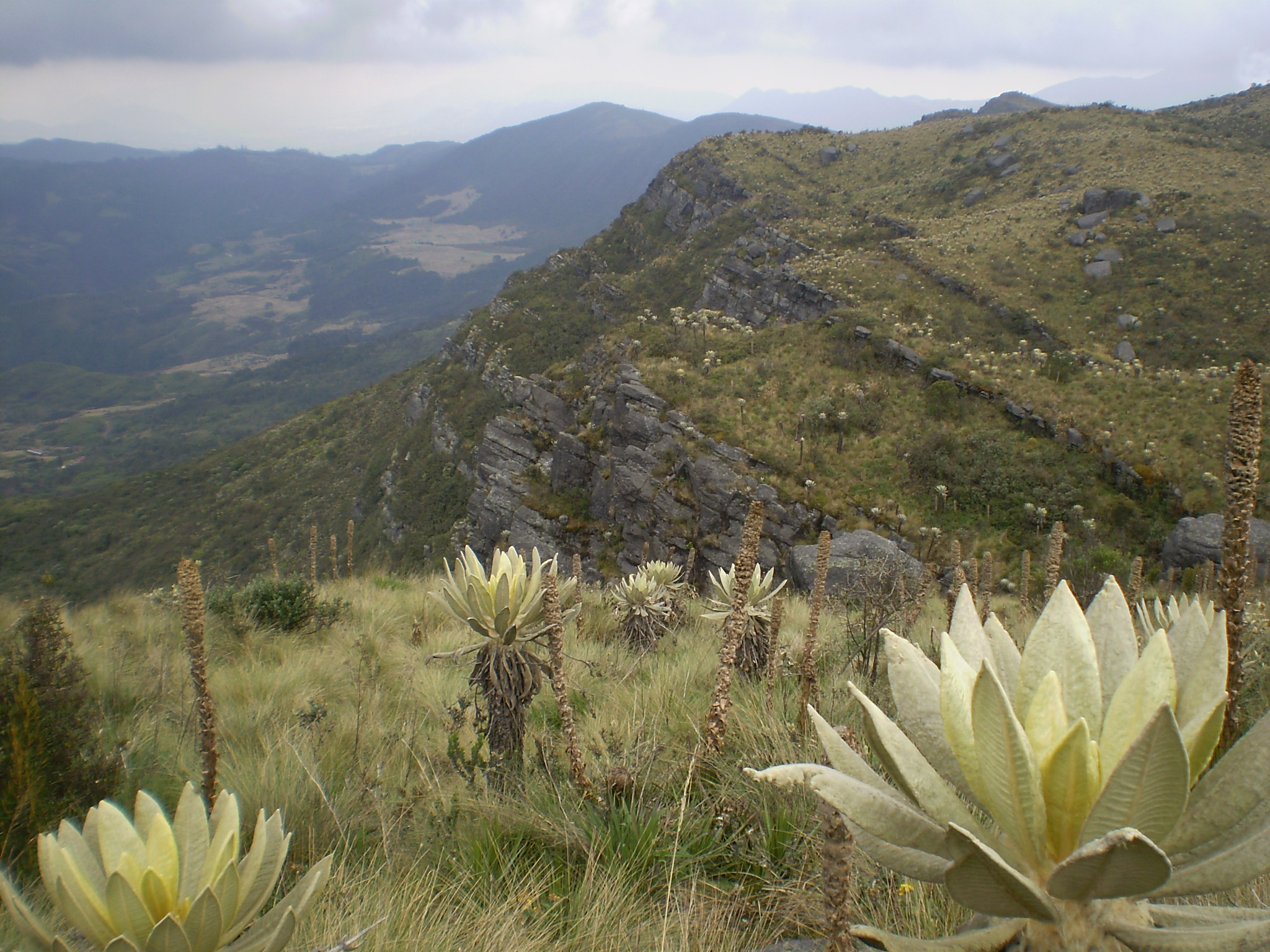 Crested Roses (Espeletia) in the Páramo de Guerrero of Colombia